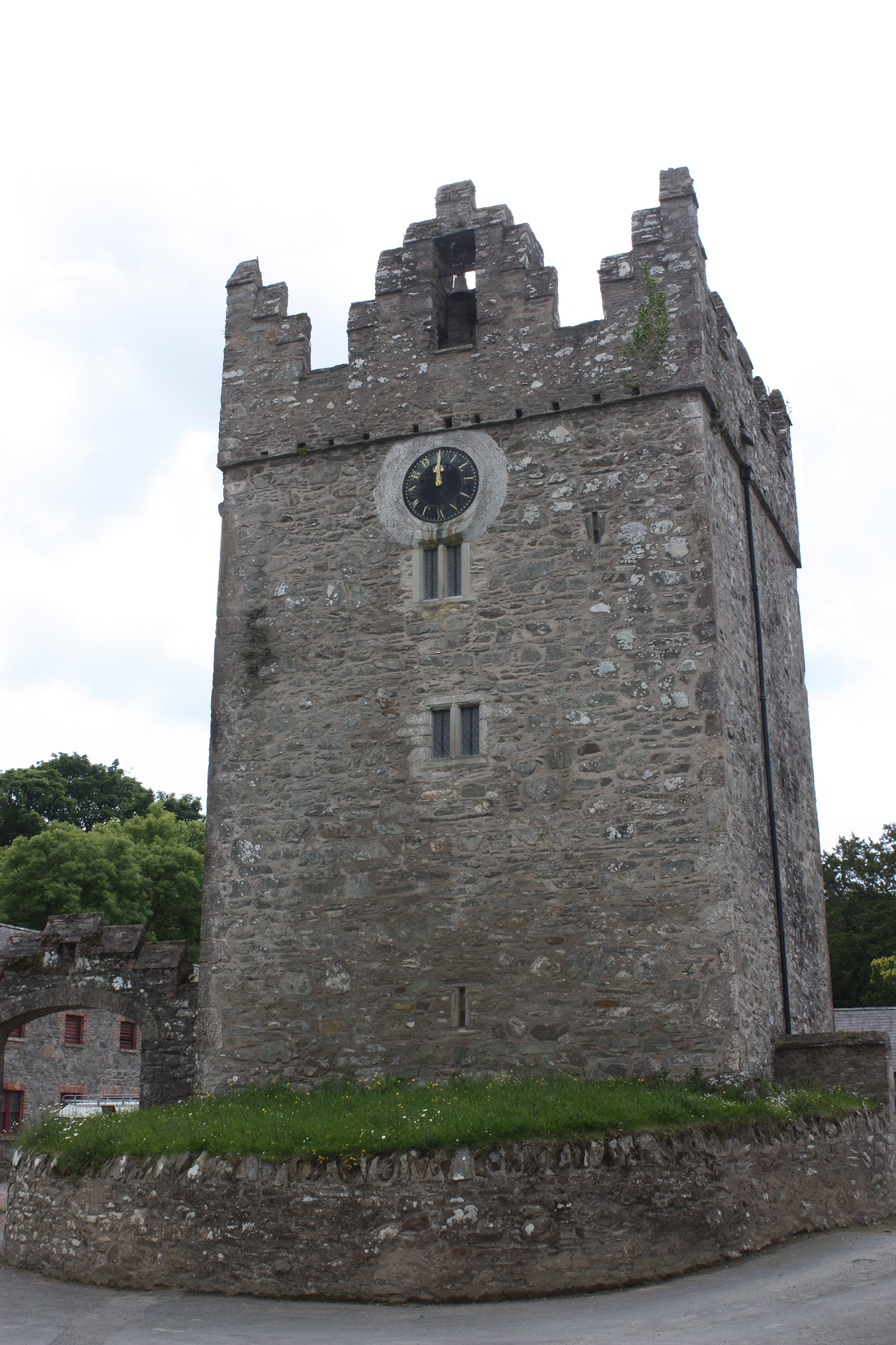 Castle Ward Castle, Castle Ward, Strangford, County Down, Northern Ireland, June 2011